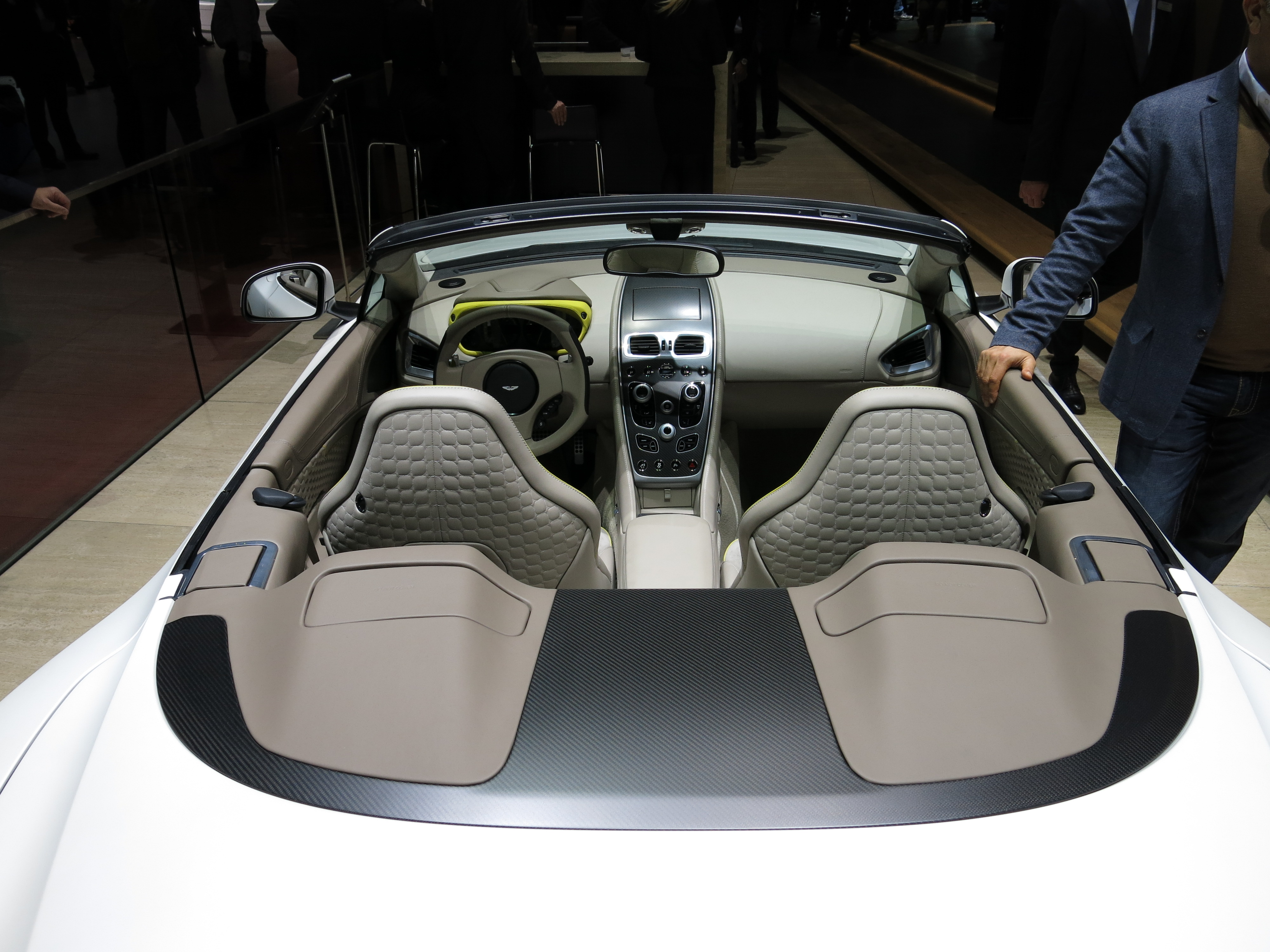 Geneva Motor Show 2015 (photo taken on the first press day)